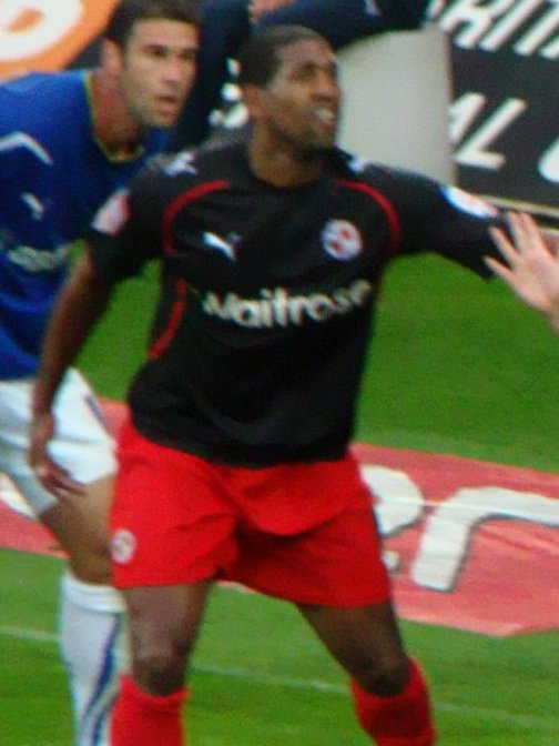 17/05/11 - Cardiff V Reading, Championship Semi-Final 2nd Leg, Cardiff City Stadium, Cardiff, Wales